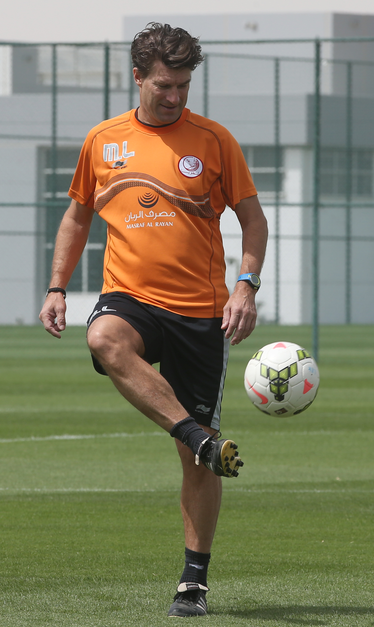 Qatar Stars League side Lekhwiya's coach Michael Laudrup during his team's training session in Doha.